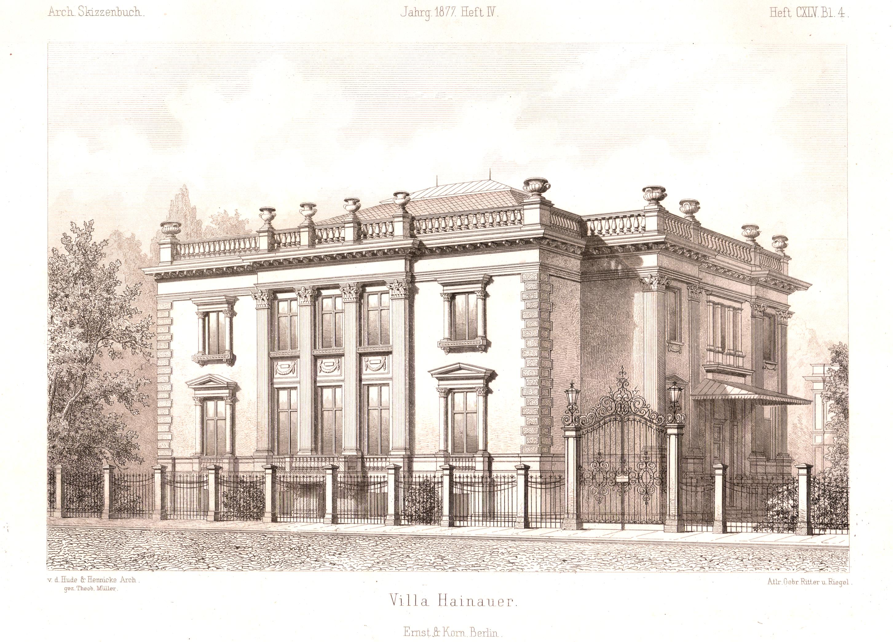 Oscar Hainauer house at Berlin-Tiergarten, Rauchstraße 23; built around 1877 after a design by Hermann von der Hude und Julius Hennicke (employee: Theobald Müller); destroyed